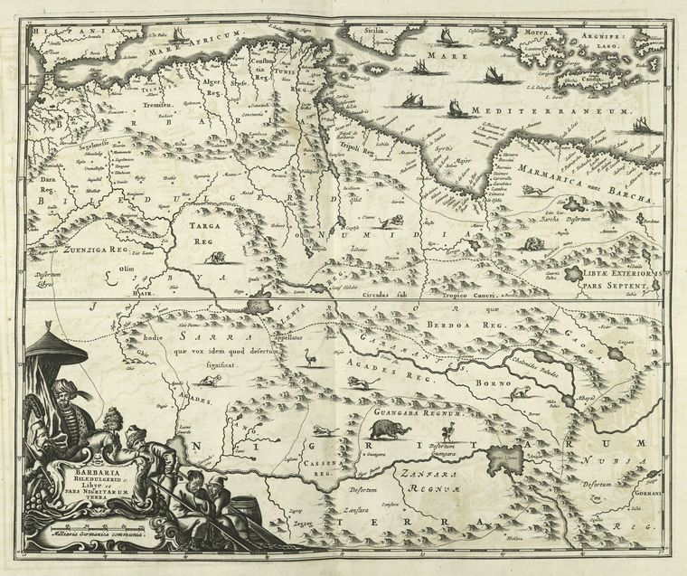 Map of Barbaria Biledulgered o: Libye et pars Nigritarum Terra found between pages 146 and 147 of Africa: being an accurate description of the regions of Ægypt, Barbary, Lybia, and Billedulgerid, the land of Negroes, Guinee, Æthiopia and the Abyssines : with all the adjacent islands, either in the Mediterranean, Atlantick, Southern or Oriental Sea, belonging thereunto : with the several denominations of their coasts, harbors, creeks, rivers, lakes, cities, towns, castles, and villages, their customs, modes and manners, languages, religions and inexhaustible treasure : with their governments and policy, variety of trade and barter : and also of their wonderful plants, beasts, birds and serpents : collected and translated from most authentick authors and augmented with later observations : illustrated with notes and adorn'd with peculiar maps and proper sculptures